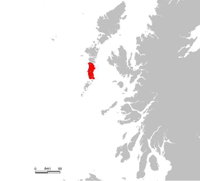 UK South Uist.PNG (Scotland, Hebrides)